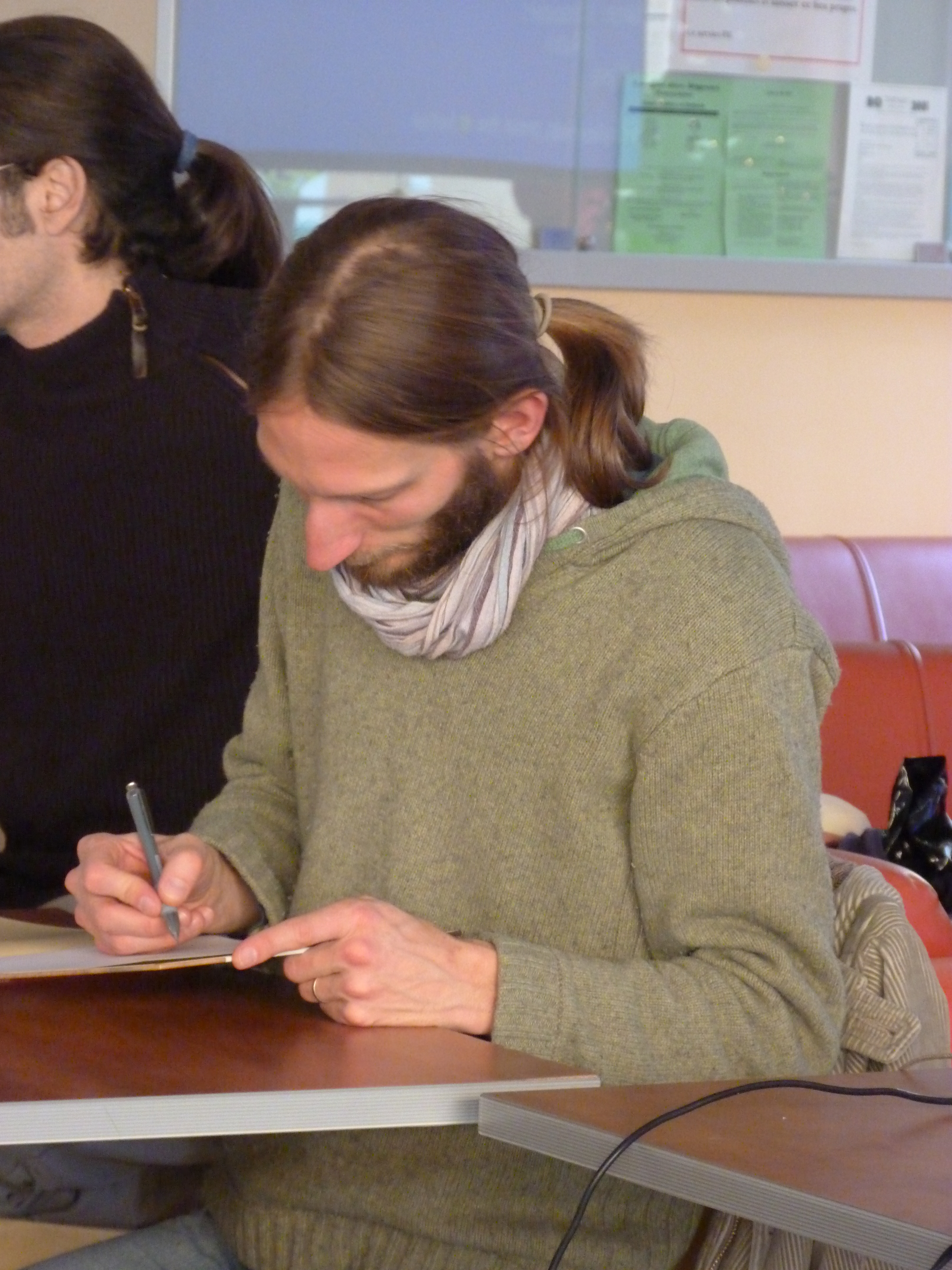 Autograph session with Maël at IUT de Valence (France).